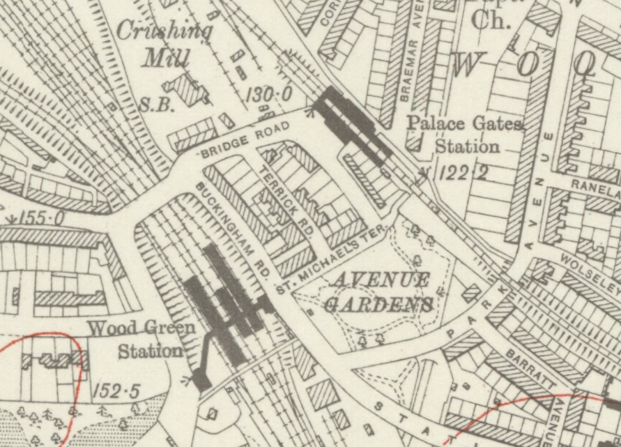 Palace Gates and Wood Green (now Alexandra Palace stations in north London on a 1920 Ordnance Survey map.